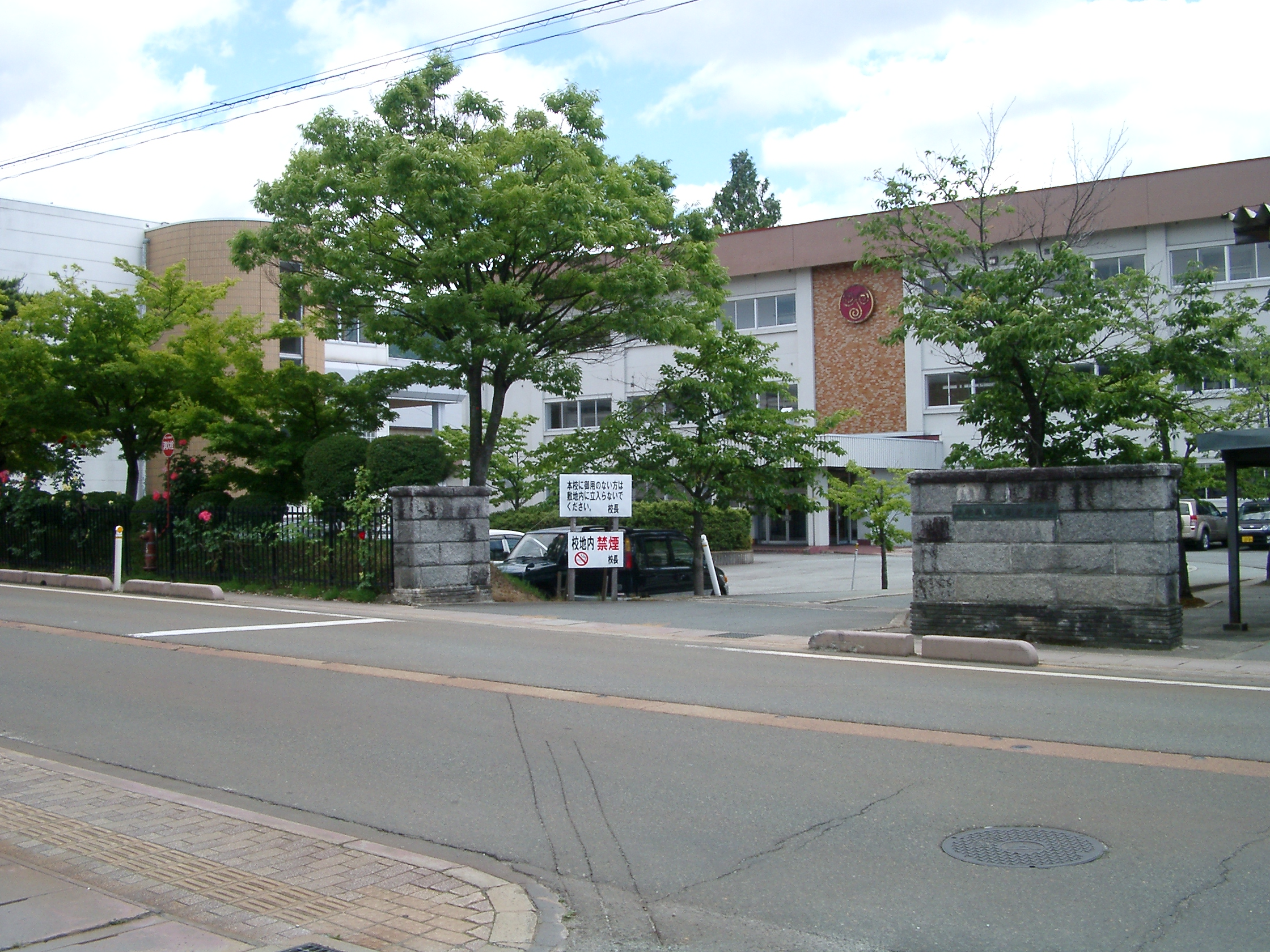 Yamagata Prefectural Tateoka High School